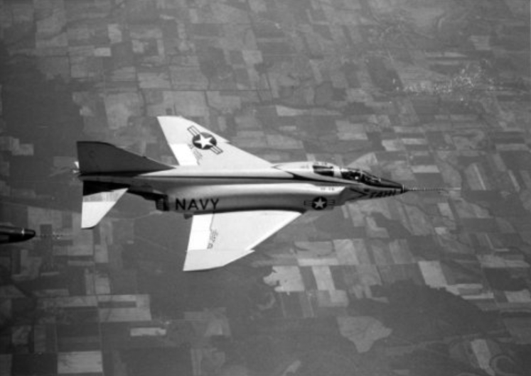 The first U.S. Navy McDonnell F4H-1 Phantom II (BuNo 142259) during a test flight. This aircraft crashed on 21 October 1959. The pilot was killed. Note the nose of the chase plane on the left.